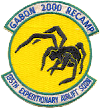 135th Expeditionary Airlift Squadron - emblem